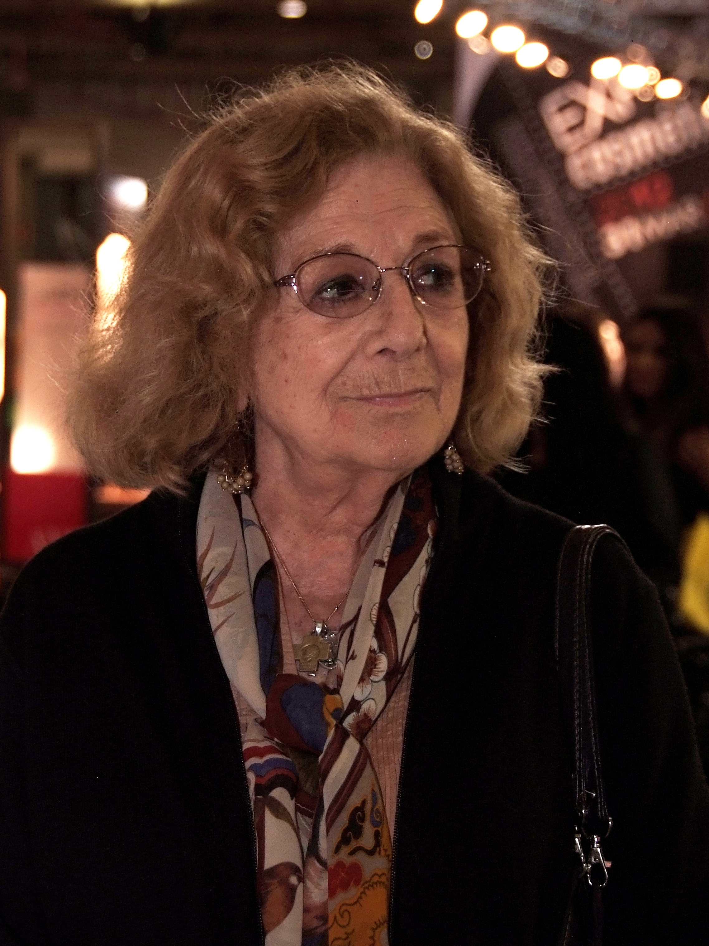 Portuguese actress Eunice Muñoz at ExpoCosmetica 2012 trade fair, at Exponor, Porto, Portugal.